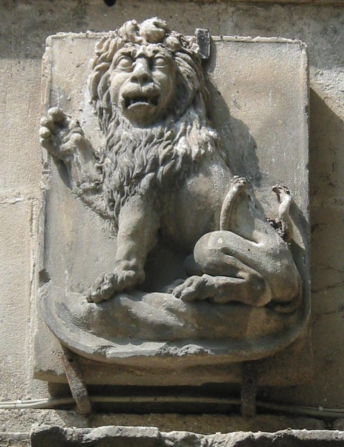 Arles: The Lion at Hotel de Ville